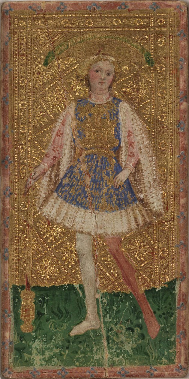 Knave of Staves (Jack of Clubs) from the Visconti-Sforza tarot deck